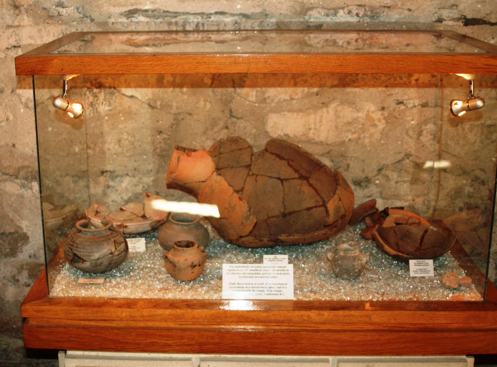 Archealogical findings from Church of Kish